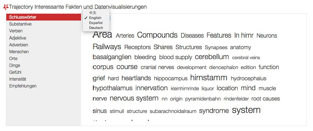 Example of Trajectory Natural Language Processing